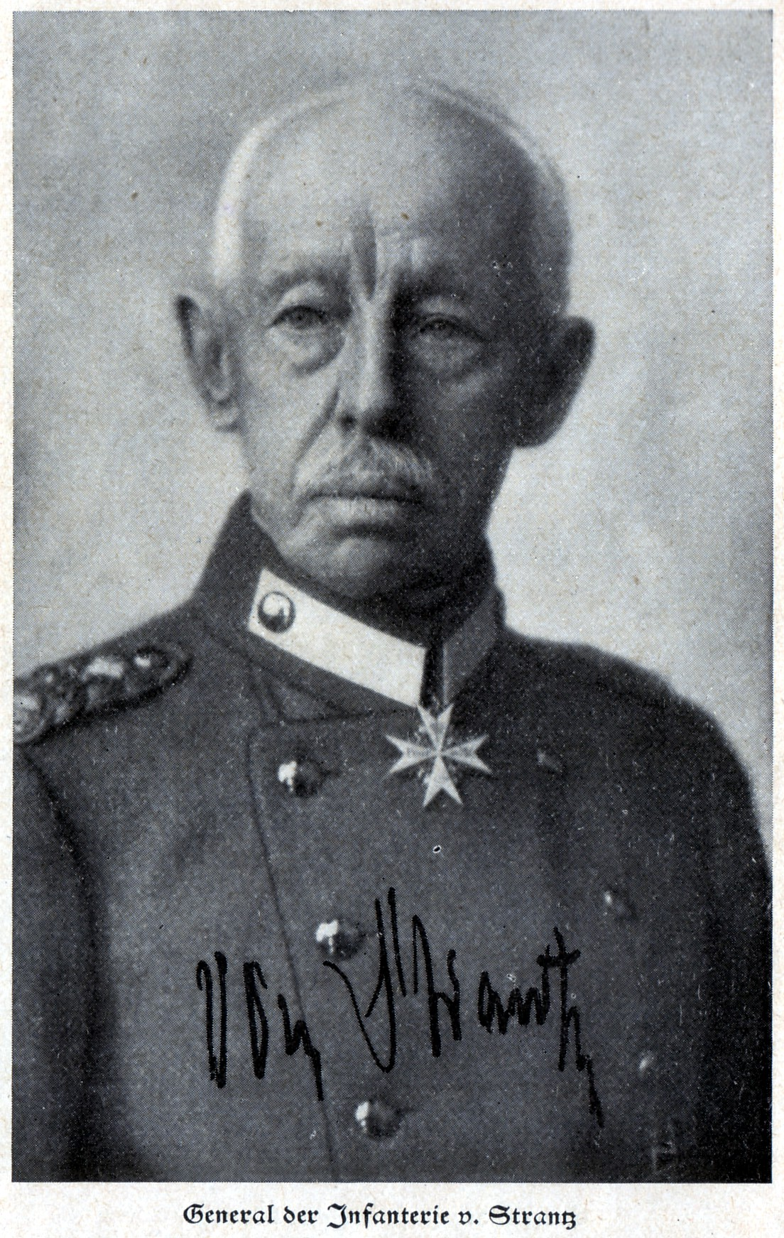 German General Hermann von Strantz (WW1)